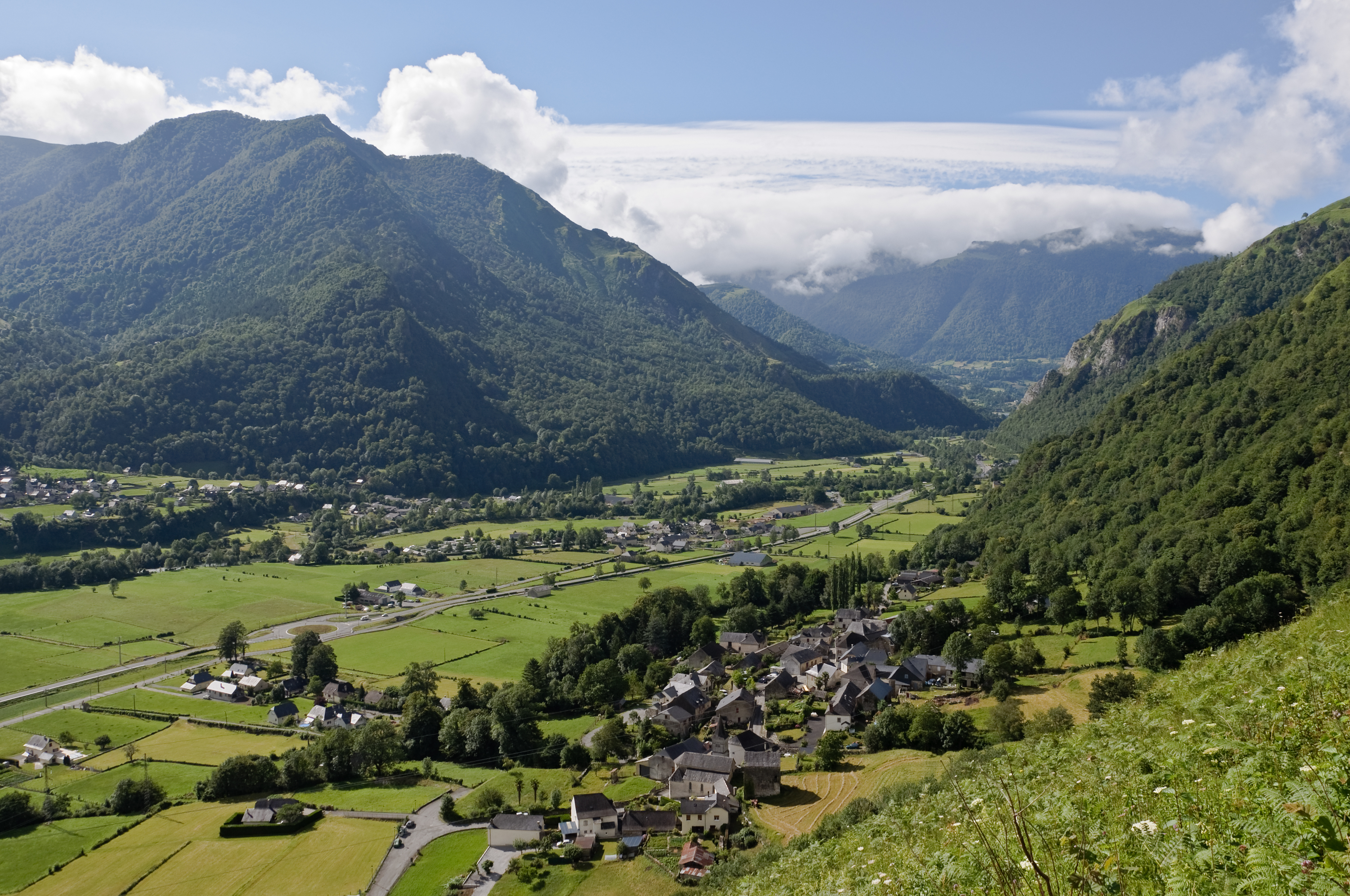 The Ossau Valley in the French Pyrenees, seen from the foothills of the 'Plaa de Soum'. On the left bank of the 'gave d'Ossau', Gère and Monplaisir, neighborhoods of the commune of Gère-Bélesten; on the right bank, a part of the village of Aste-Béon.